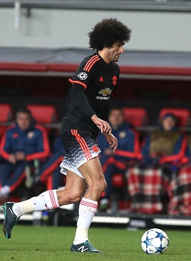 Marouane Fellaini of Manchester United during UEFA Champions League match against PFC CSKA Moscow